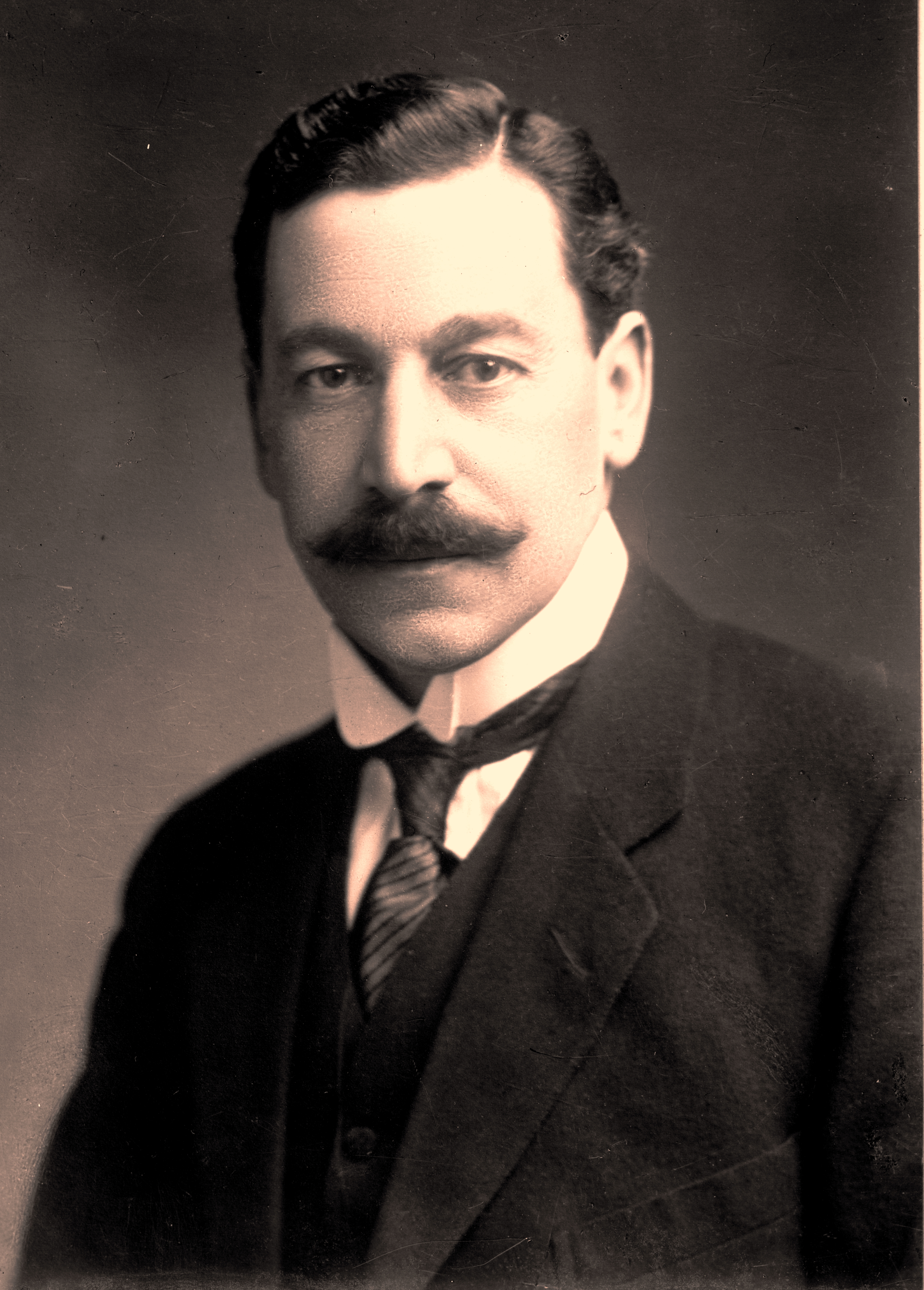 Sir Herbert Samuel.